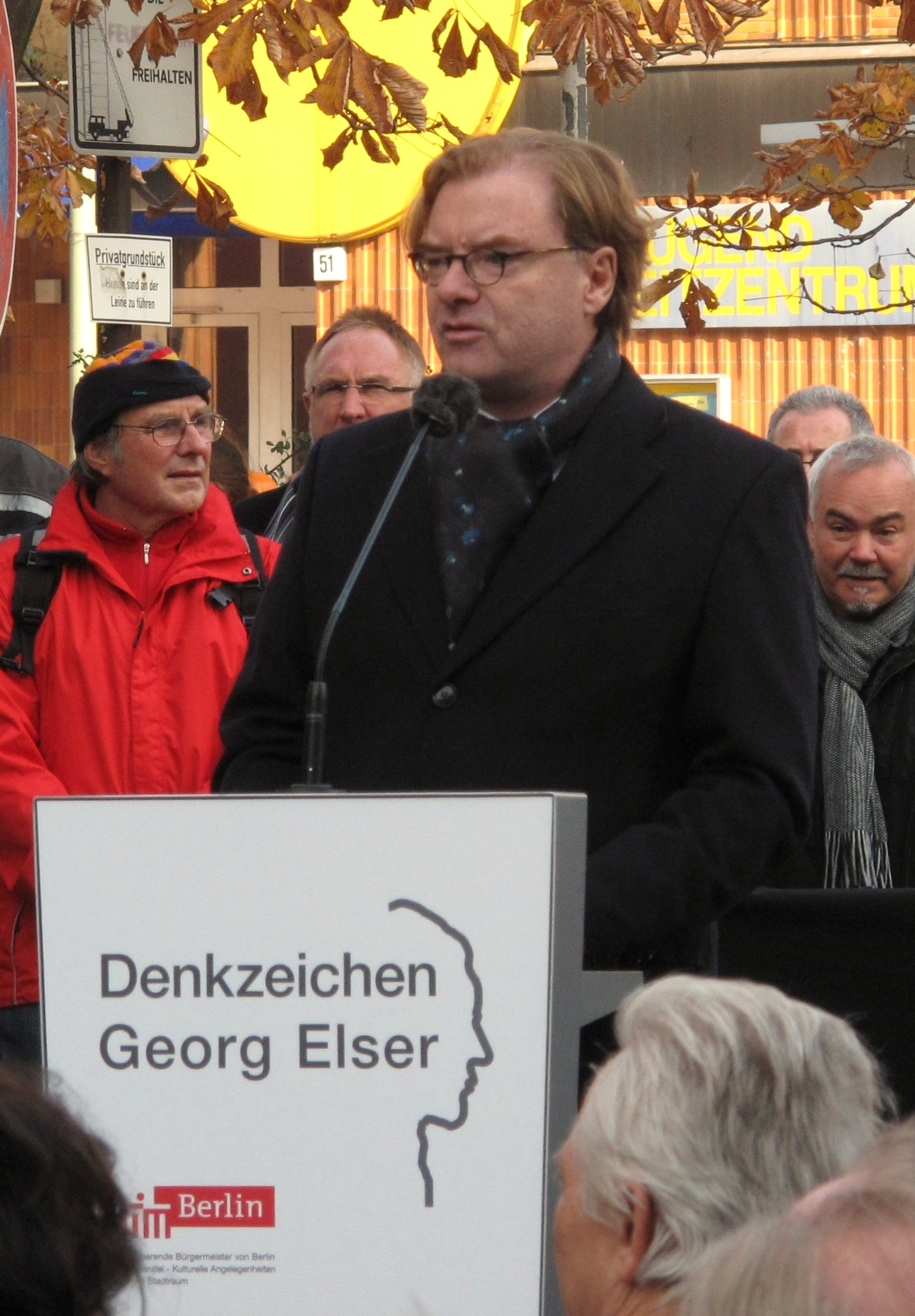 Berlin’s Secretary of State for Culture André Schmitz at the occasion of the official handing over of the sculpture Denkzeichen Georg Elser. The historical marker Denkzeichen Georg Elser is a sculpture in Berlin-Mitte commemorating to the German opponent of Nazism and Hitler-assassin Georg Elser. The 17-meter high sculpture was created by the artist Ulrich Klages and was opened to the public on 8 November 2011. It is situated at the corner Wilhelmstraße/An der Kolonnade and is completed by two quotes from Elser, that were set into the sidewalk, and by an information board.